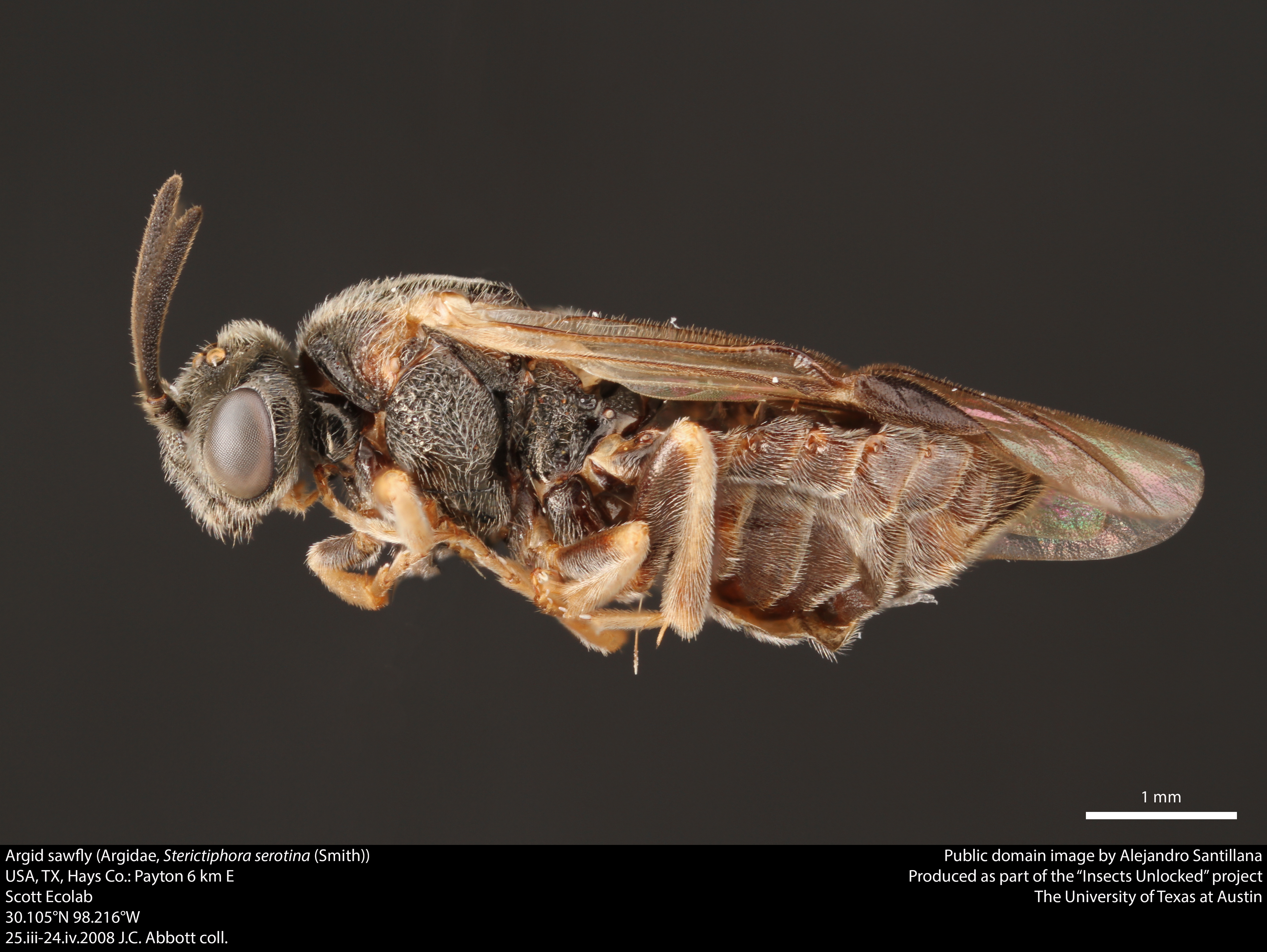 Argid sawfly (Argidae, Sterictiphora serotina (Smith)) USA, TX, Hays Co.: Payton 6 km E Scott Ecolab 30.105°N 98.216°W 25.iii-24.iv.2008 J.C. Abbott coll. This image was created as part of the Insects Unlocked project at the University of Texas at Austin. Based in the UT insect collection at Brackenridge Field Laboratory, part of the Department of Integrative Biology. Do not crop: This image is used on one or more sister projects, where its entire contents are wanted. If you crop it, please save the new image separately, and do not overwrite this one.